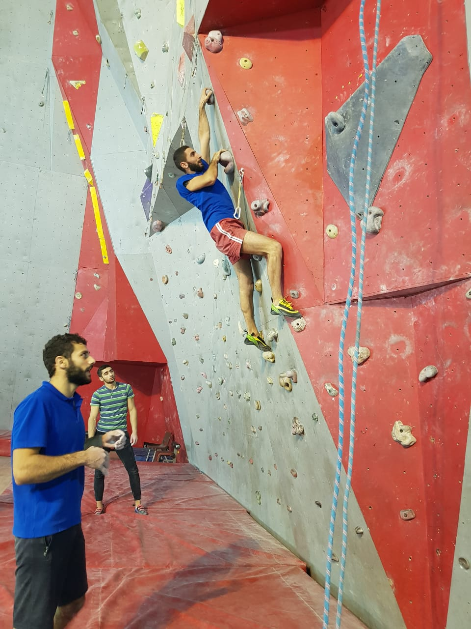 Armenian Rock Climbing